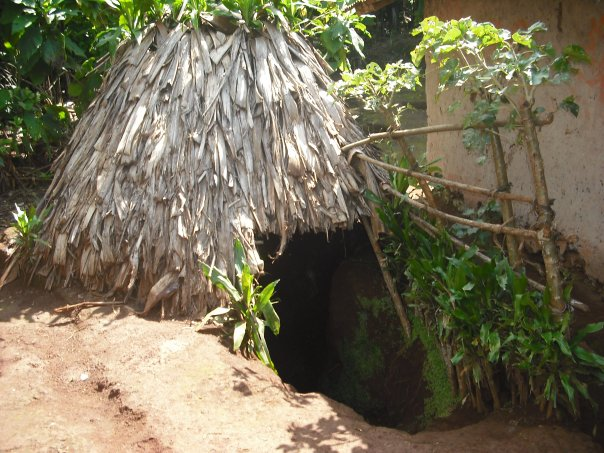 Handaki shelter made by the Chaga people